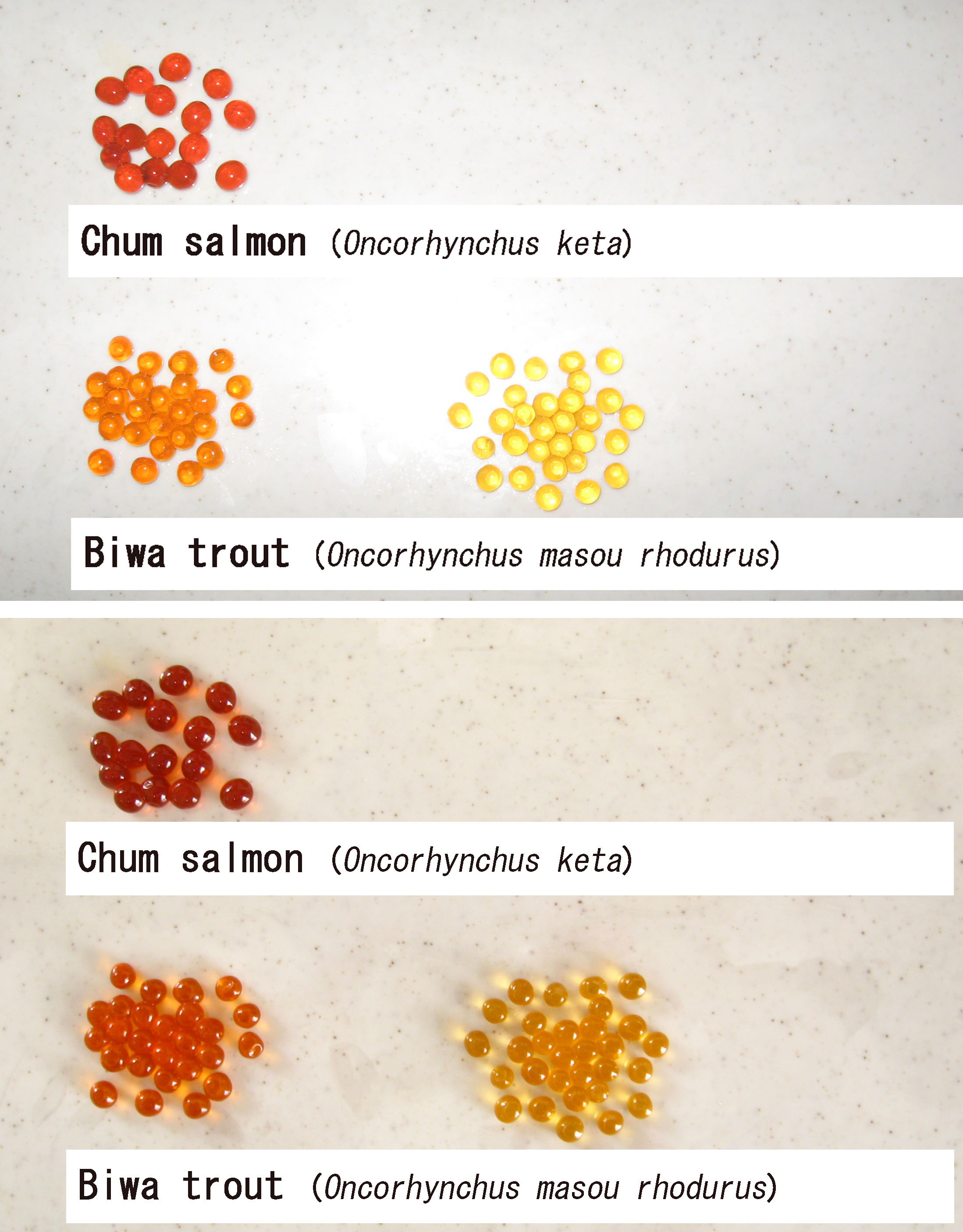 Example of flash effect